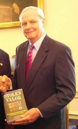 A crop of File:John Salazar and B.G. Burkett.jpg